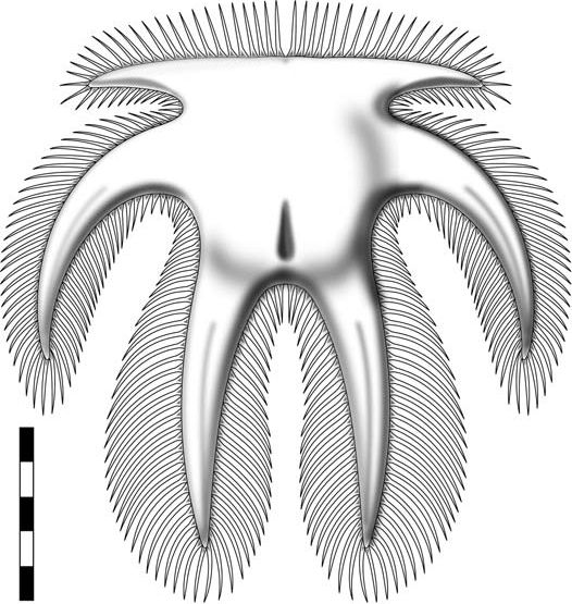 Morphological reconstruction of the marrellomorph arthropod Furca bohemica Fritsch, 1908 in dorsal view. Scale bar 10 mm.